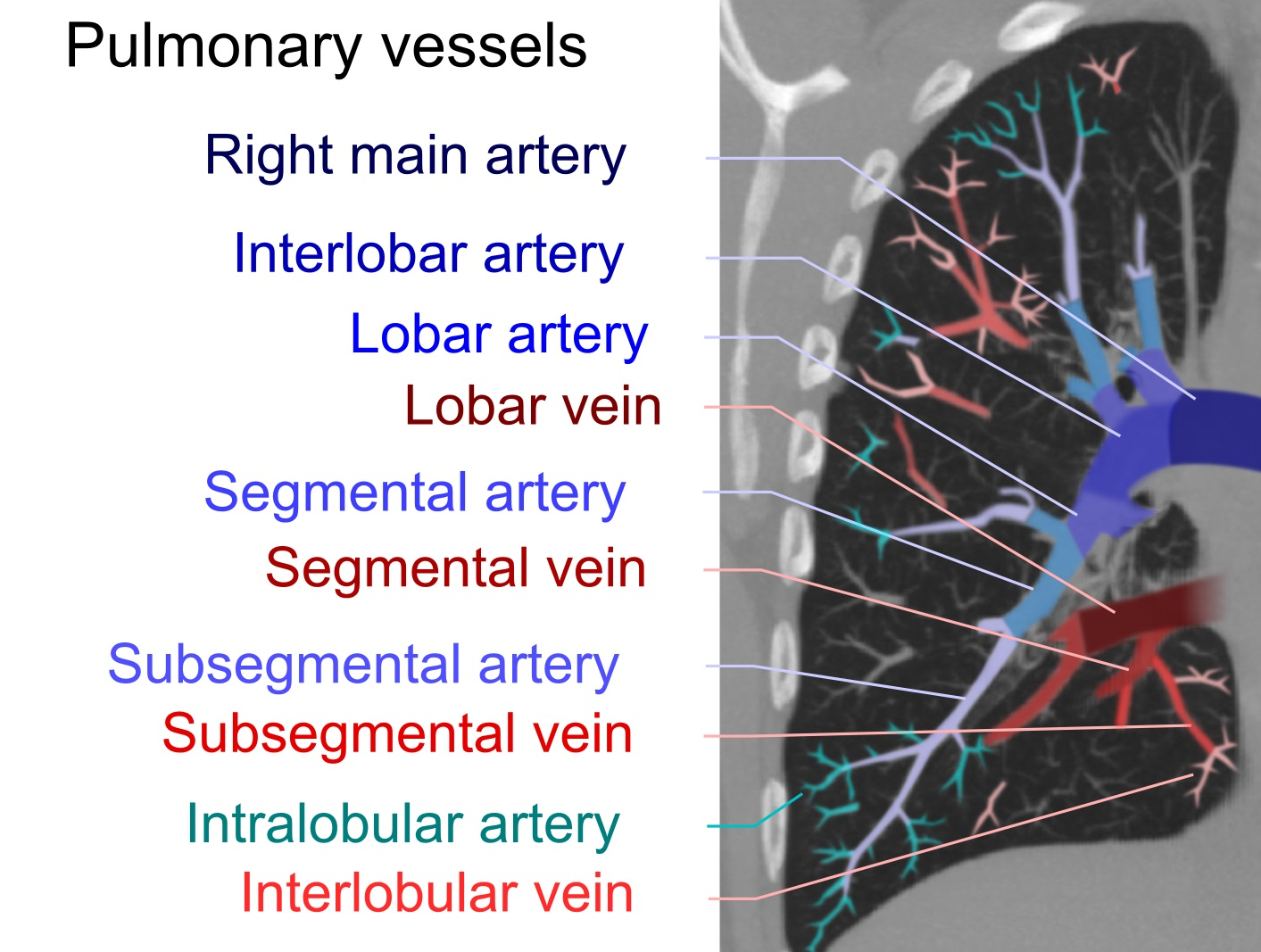 Artificially colored high resolution computed tomography of a normal lung, using a 1 cm thick maximum intensity projection in order to visualize the different levels of pulmonary arteries and veins.